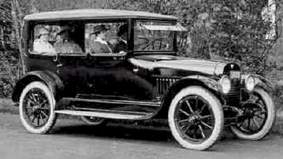 1922 Biddle Model B-1 Sedan. This was the last model year of this assembled small luxury car. Like most Biddles, B-series used Buda WTU L-head 4 cylinder engines and featured excellent semi-custom coachwork; very few Biddles were made with (Rochester)-Duesenberg "Walking Beam" engines.